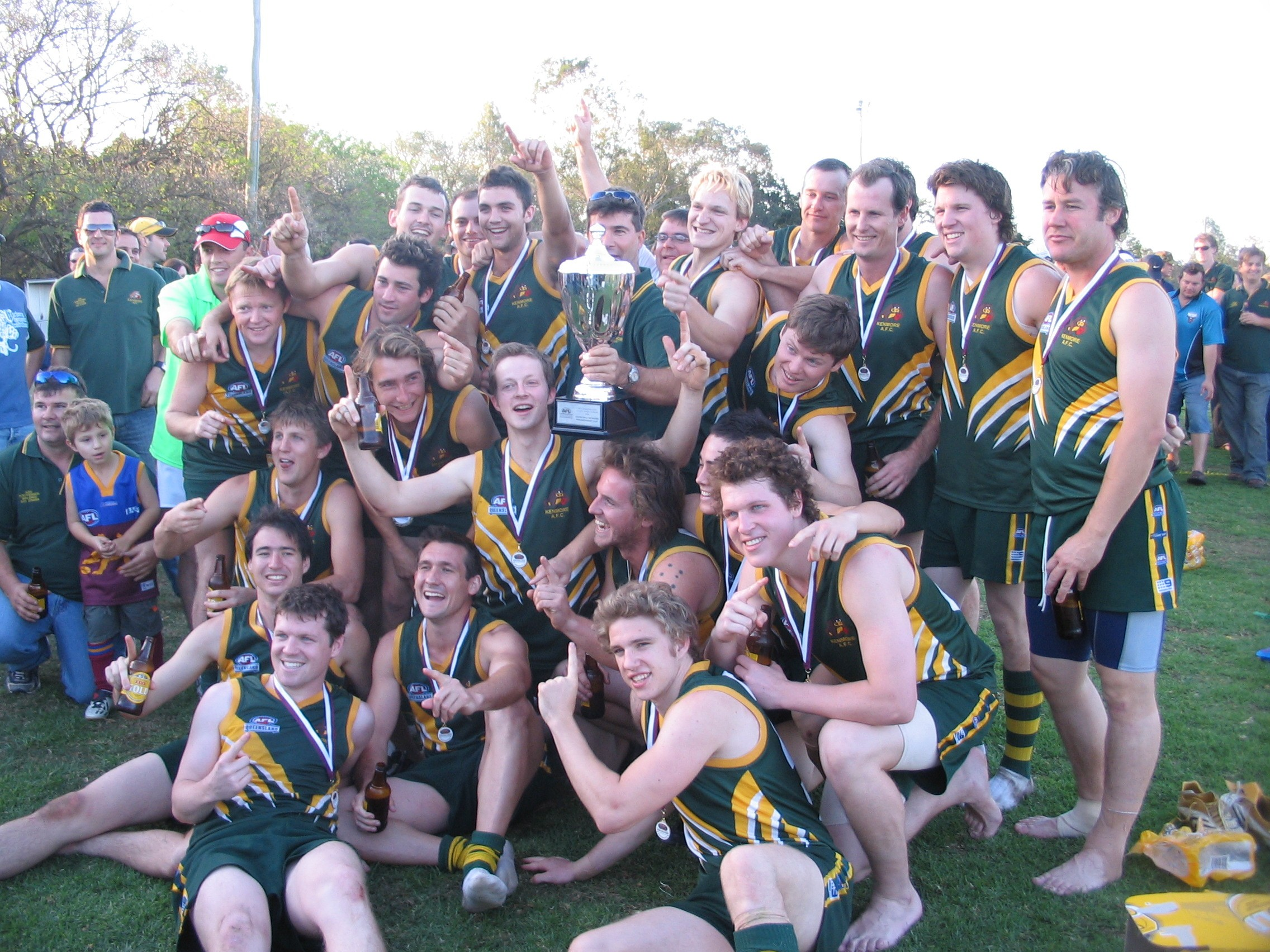 Kenmore Australian Football Club Grand Final photo #1